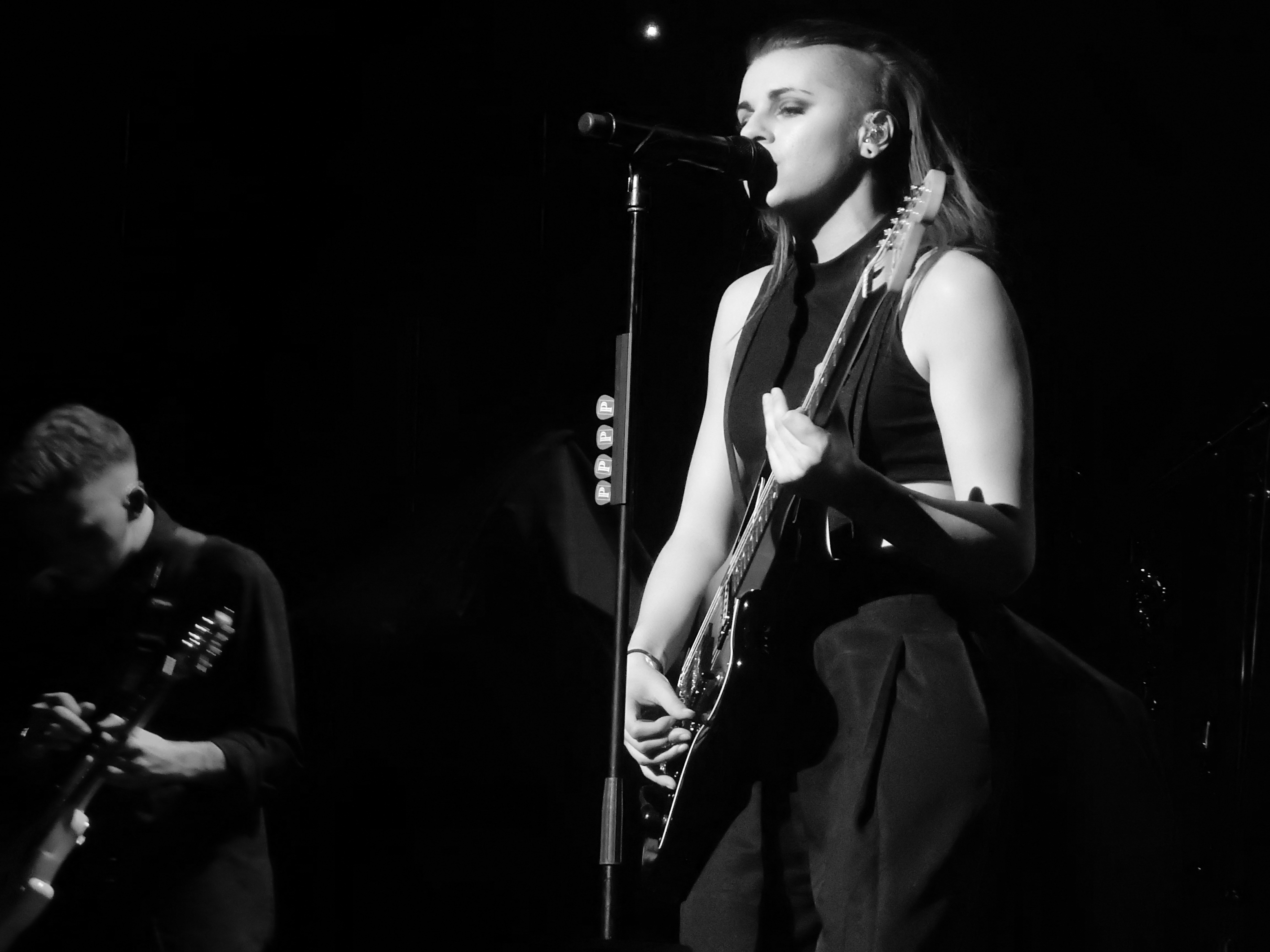 PVRIS, Royal Albert Hall, London